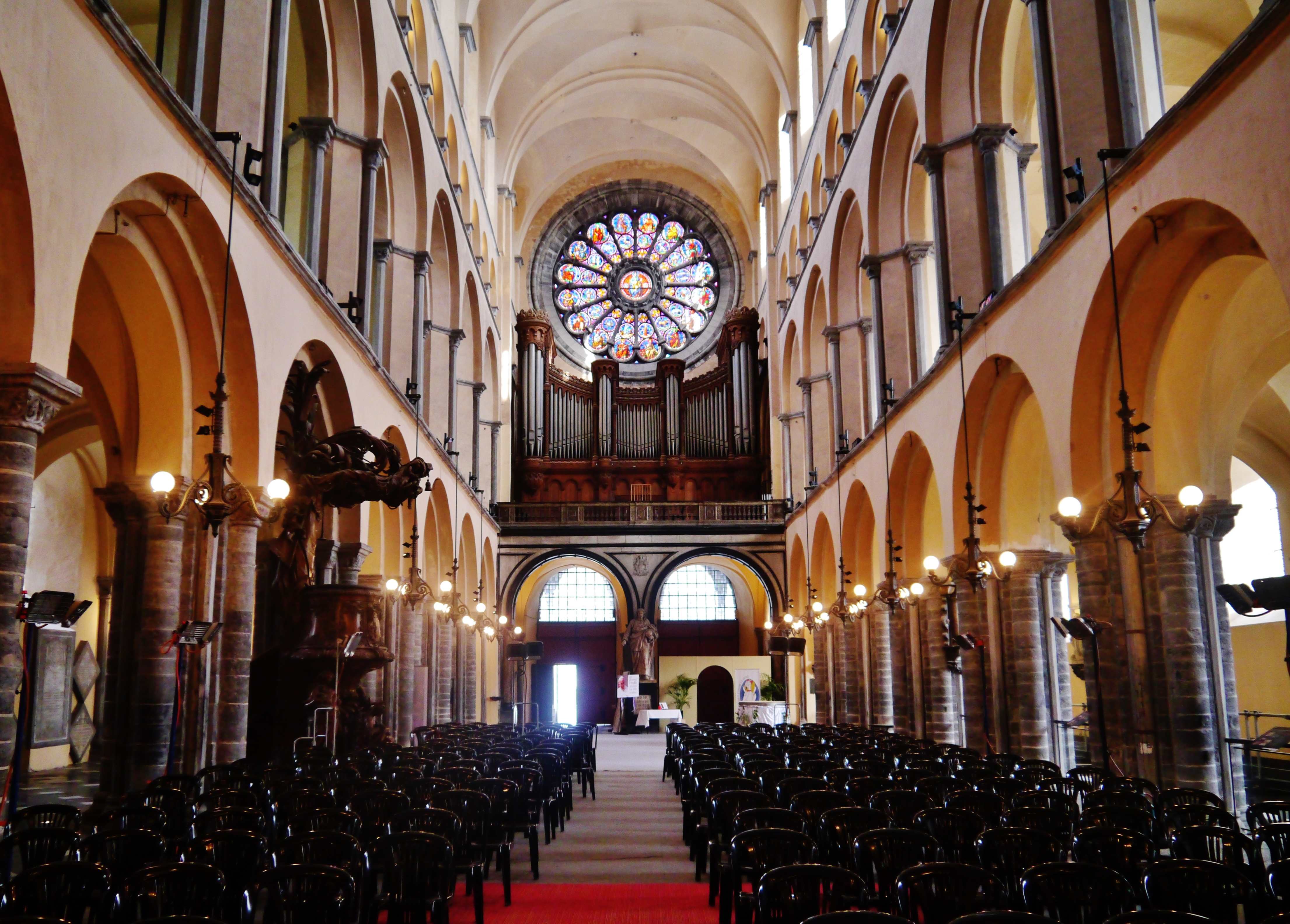 Nave of the Cathedral of Our Lady, Tournai, Province of Hainaut, Wallonia, Belgium